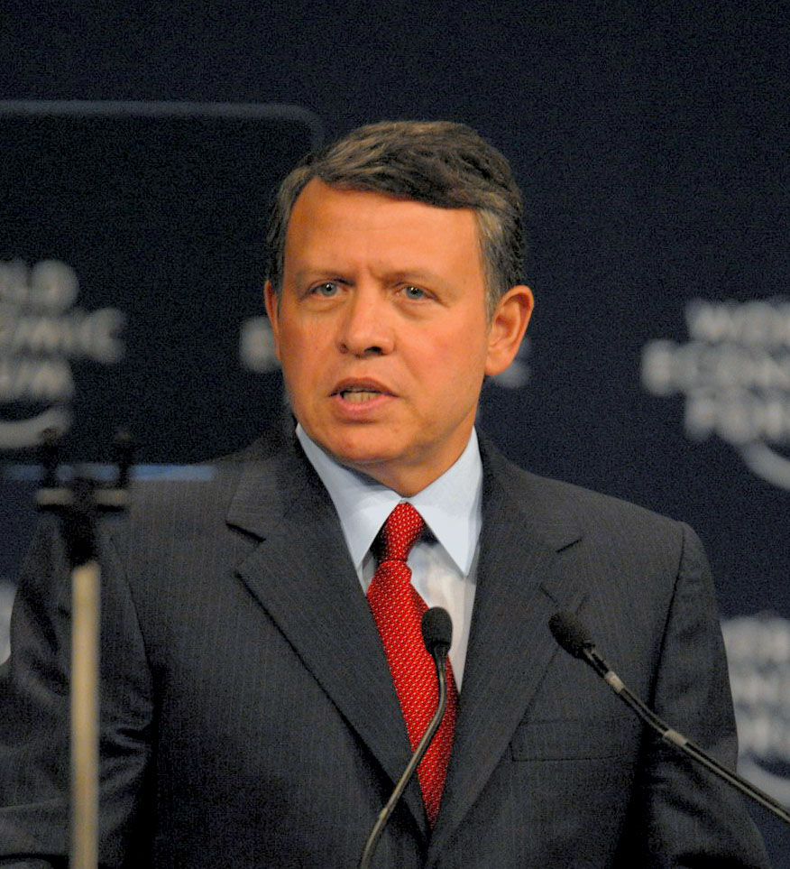 SHARM EL SHEIKH/EGYPT, 18MAY08 - H.M. King Abdullah Ibn Al Hussein of the Hashemite Kingdom of Jordan, addressing the Opening Plenary session of the World Economic Forum on the Middle East 2008 held in Sharm El Sheikh, Egypt. Copyright World Economic Forum ( Watch this session on the World Economic Forum's YouTube channel.